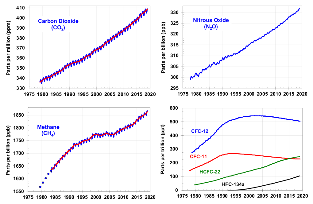 Evolution over time of the contents of the Earth's atmosphere of 4 greenhouse gases ; This image is a work of the National Oceanic and Atmospheric Administration, taken or made during the course of an employee's official duties. As works of the U.S. federal government, all NOAA images are in the public domain